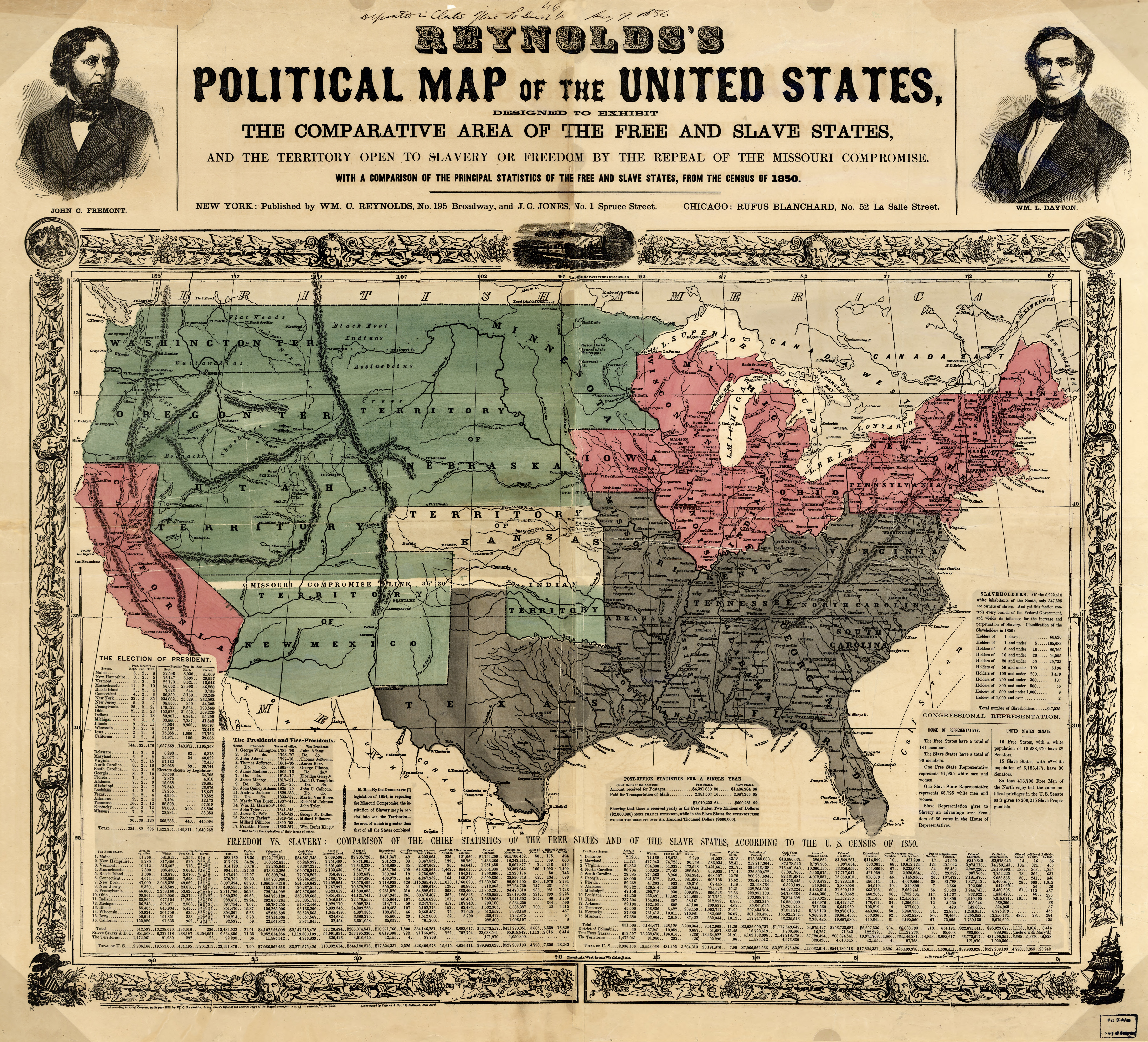 US map 1856 shows free and slave states and populations; this is "Reynolds's Political Map of the United States" (1856) from Library of Congress collection[1]